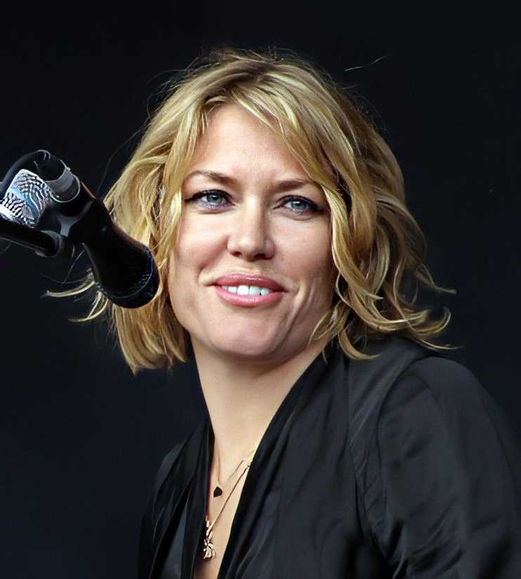 Cerys Matthews performing at the Park Stage at Glastonbury 2008